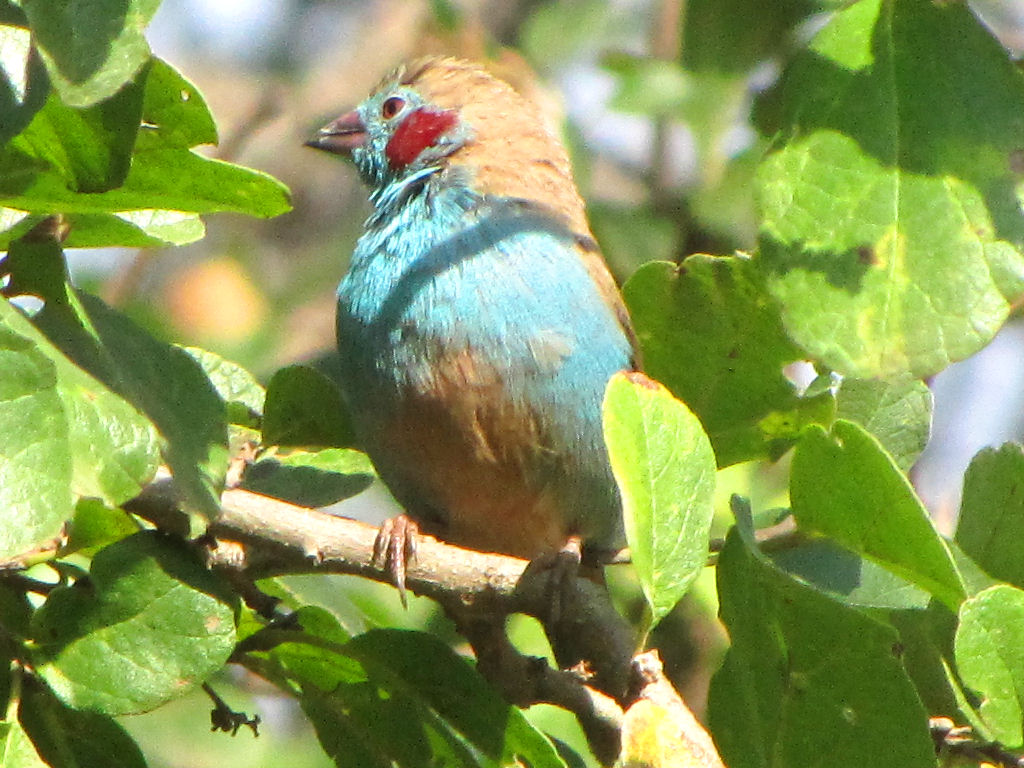 Red-cheeked Cordon-bleu (Uraeginthus bengalus) taken in Ngorongoro Park, Tanzania